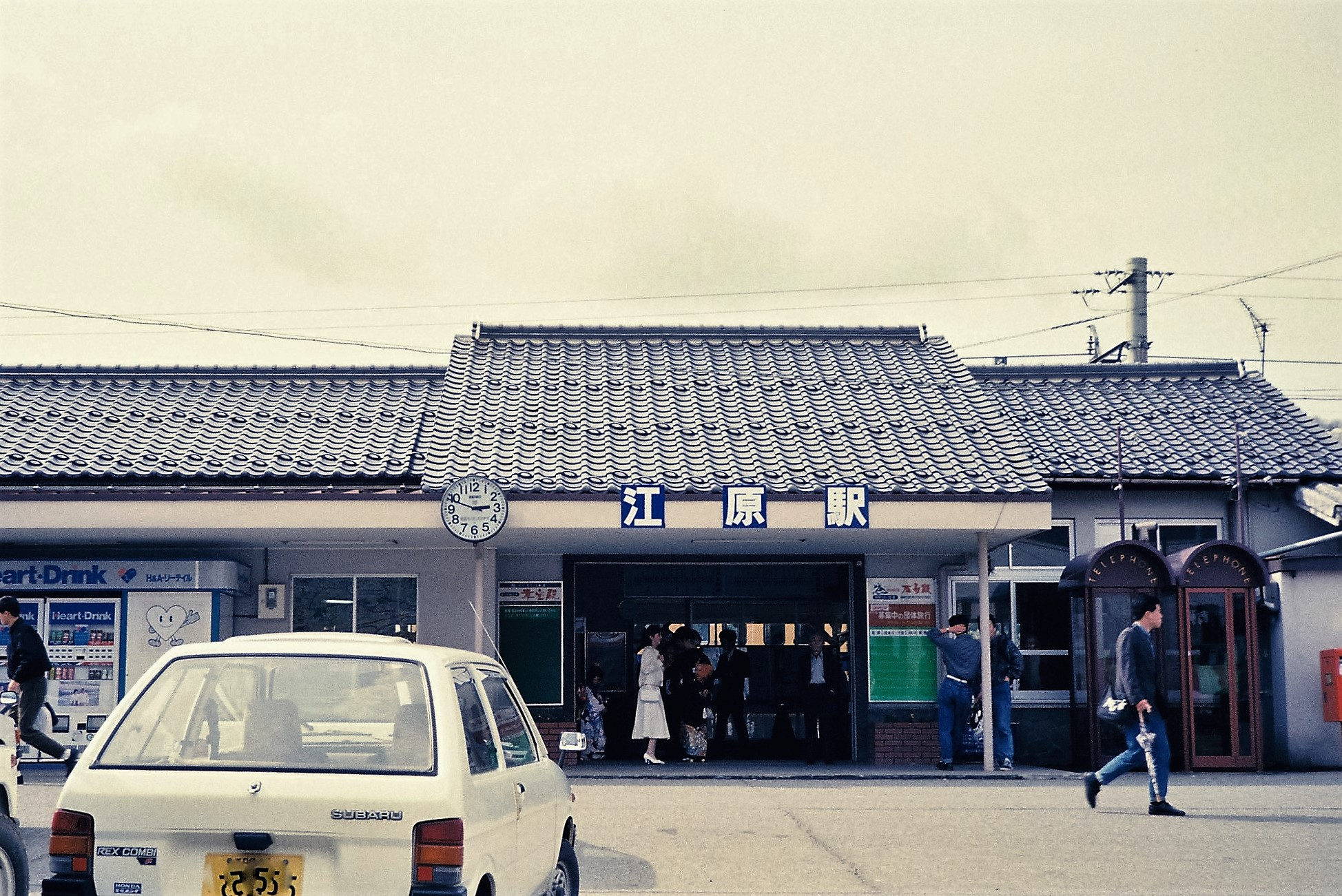 Ebara Station